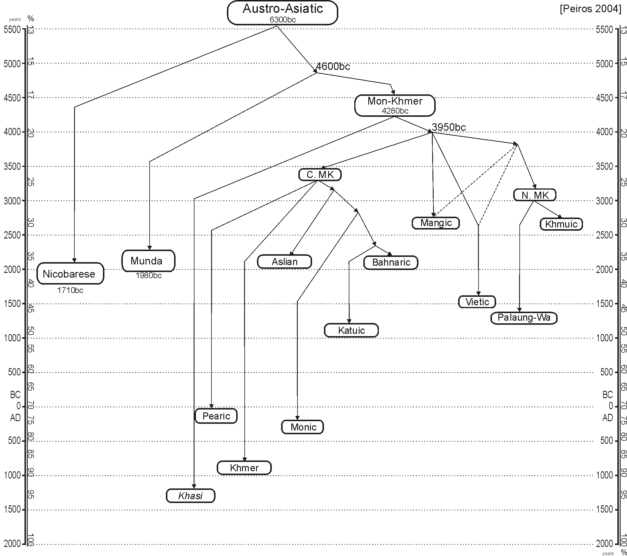 The tree is created on base of data provided in Ilya Peiros' post-doc thesis (Moscow, 2004). Position of boxes corresponds to the branching time of separated branches.